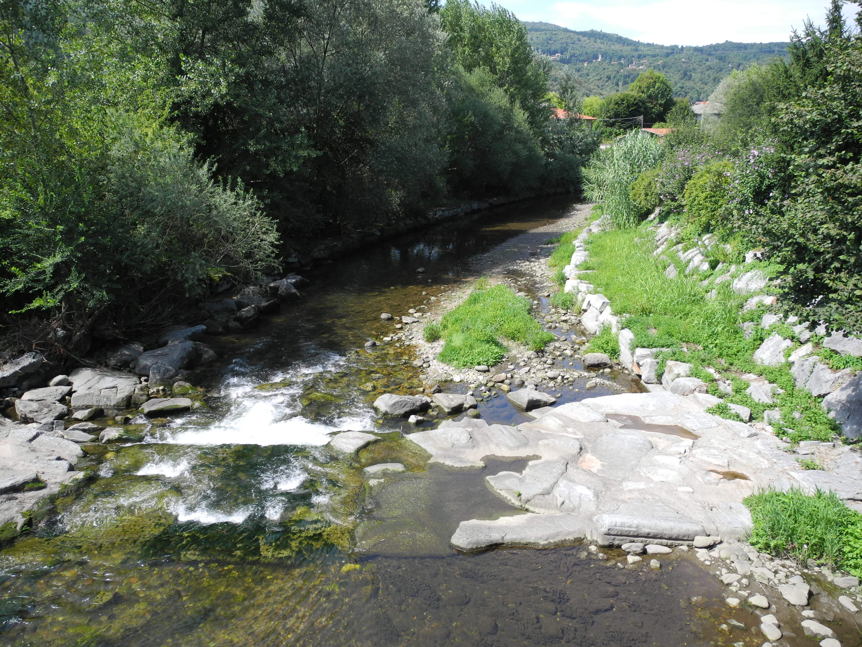 River Margorabbia from the bridge at Mesenzana